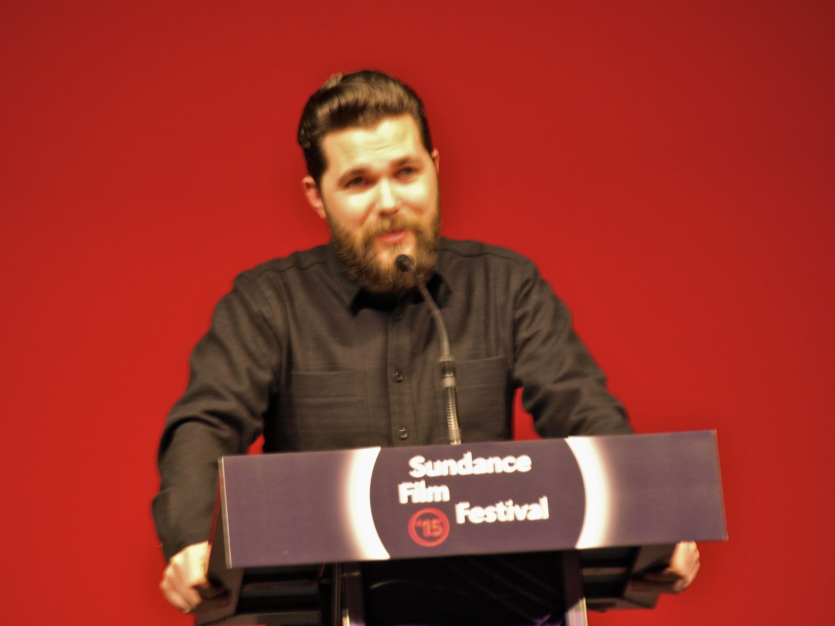 Robert Eggers Winner of the Directing Award: U.S. Dramatic for "The Witch," Sundance 2015, Awards Ceremony